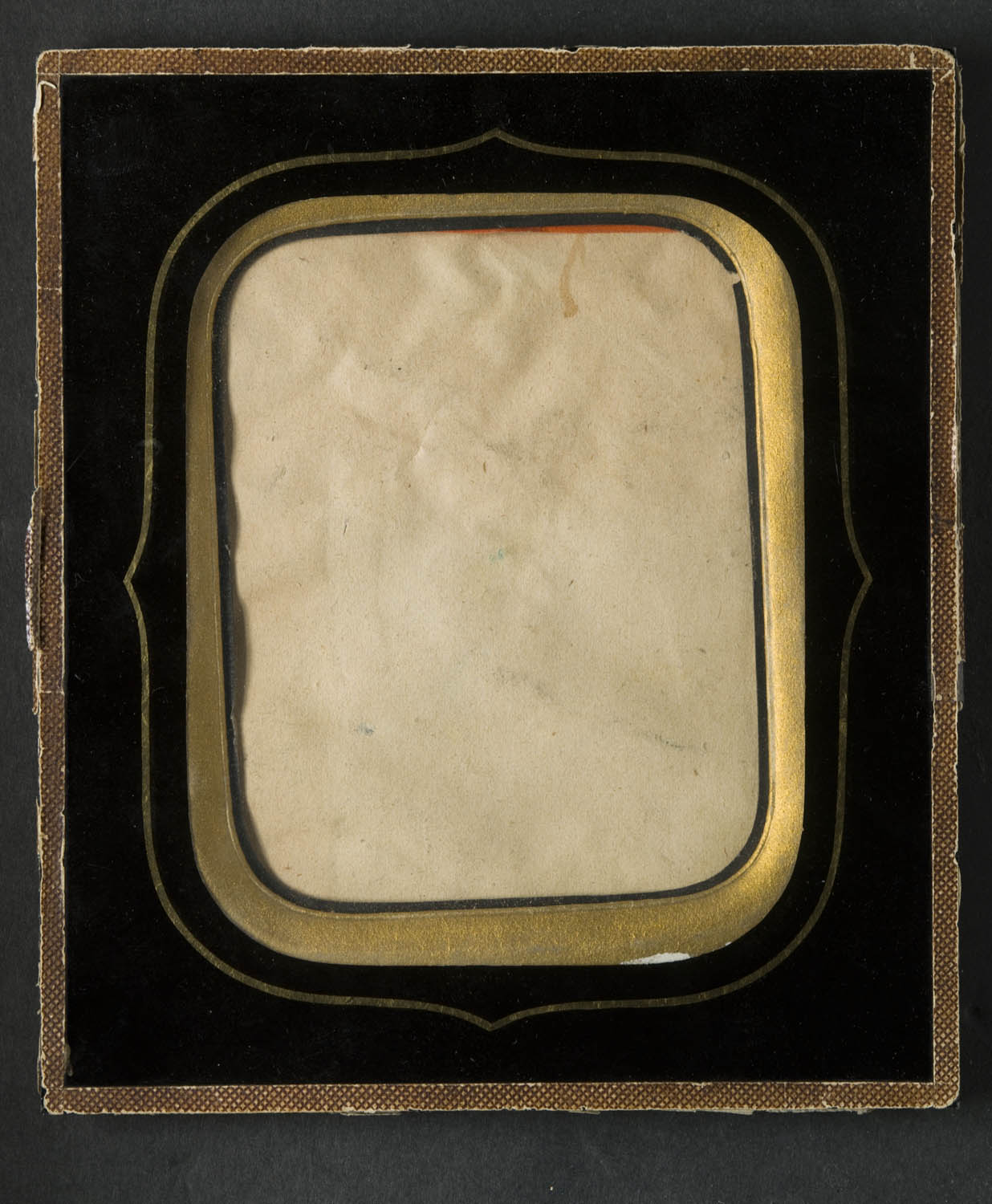 Depicted person: Adolf Drakenberg, PATRON; Augusta Adler, FRÖKEN